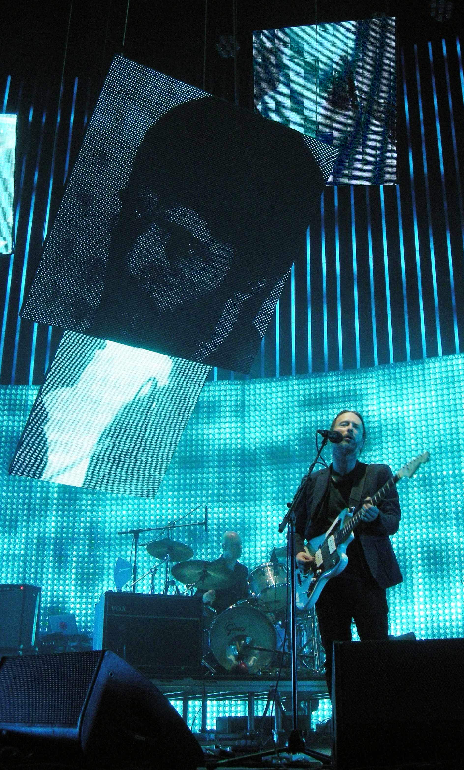 Flickr Tags: radiohead sprint center kansas city missouri kc mo king of limbs tour sold out arena concert rock and roll jazz lights led display thom yorke guitar colin greenwood March 11th 3/11/12 2012 phil selway drums mics amp blue aqua turquoise.